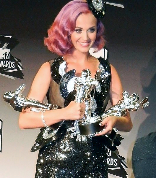 Katy Perry at MTV Video Music Awards 2011.